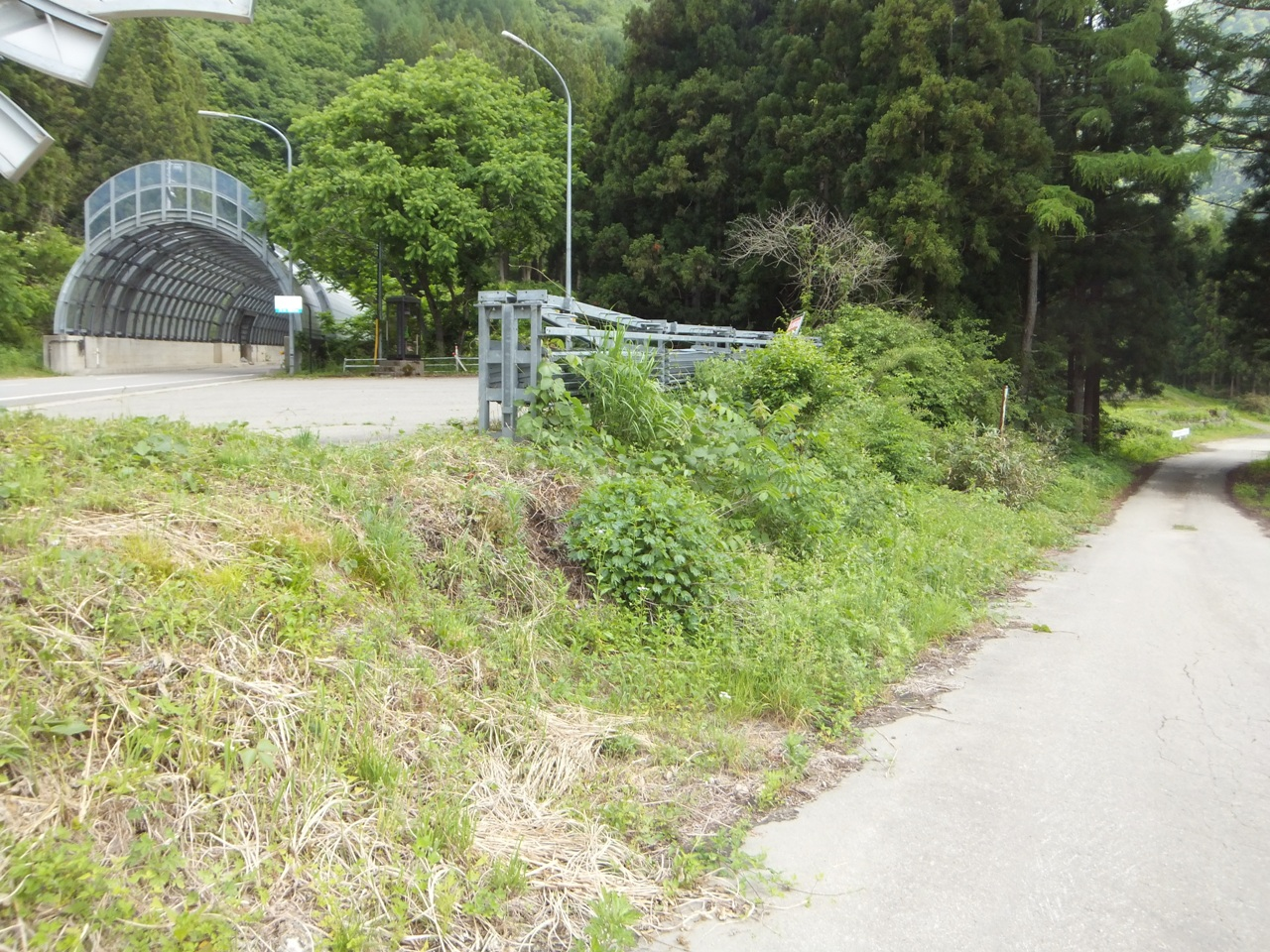 Semi-tunnel (left side),Old road (right side)